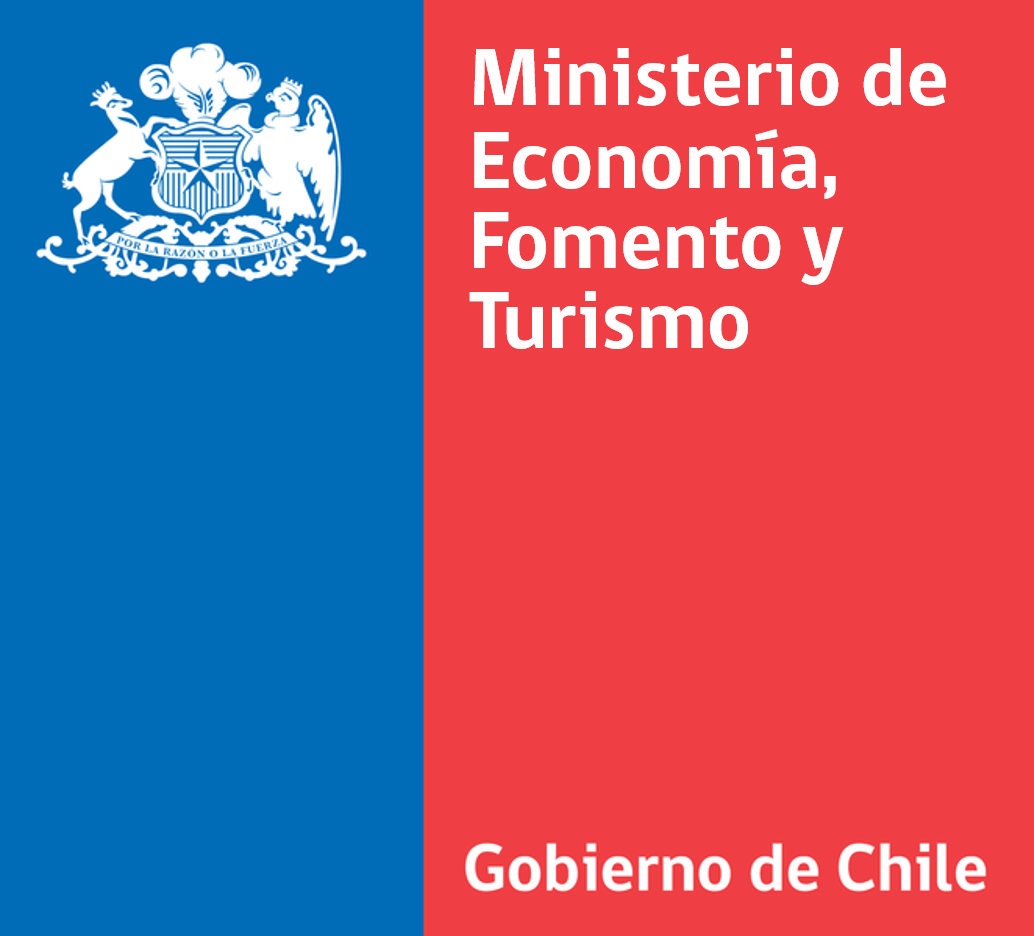 Logo of the ministry of economy and tourism promotion.